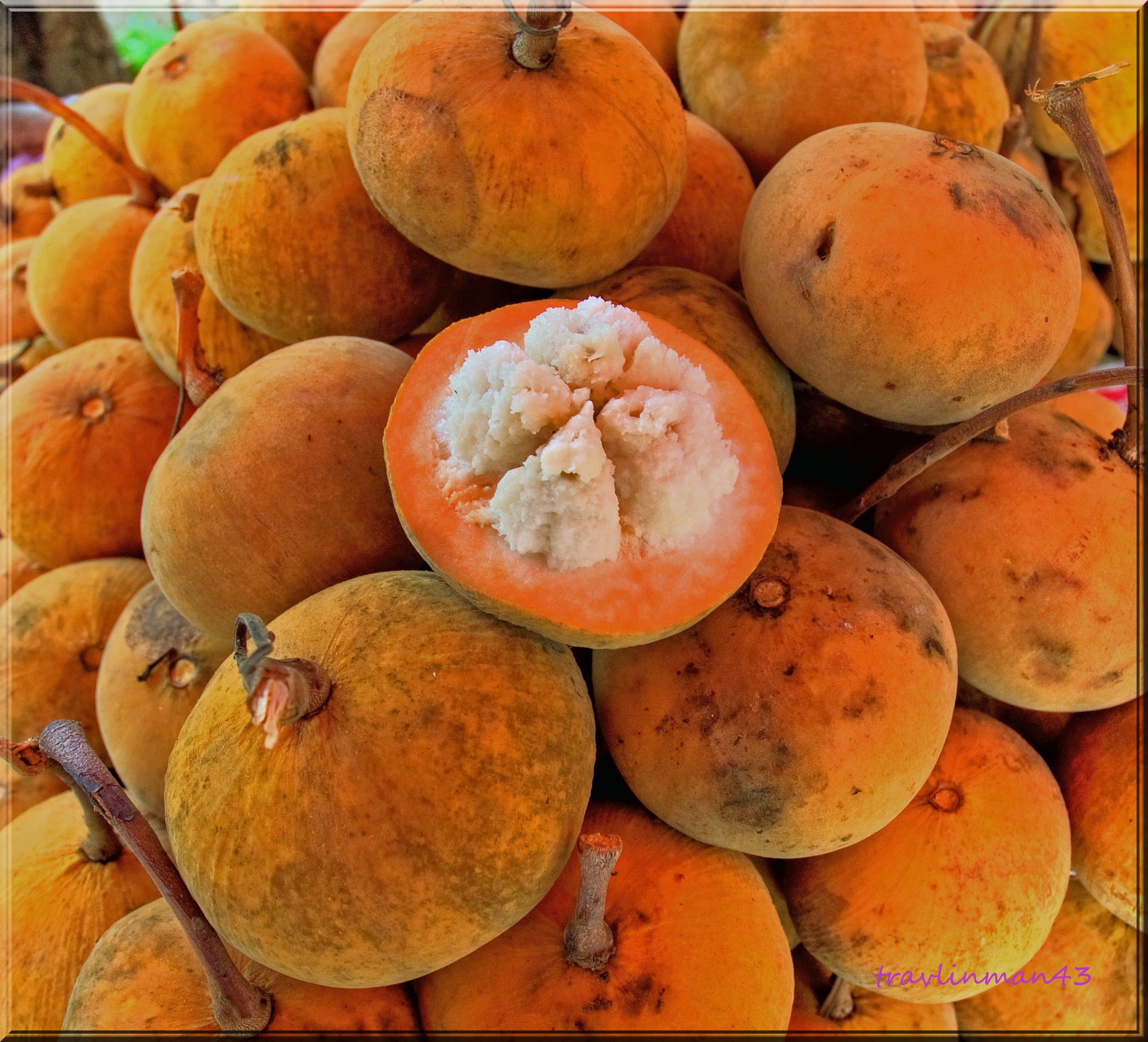 The Gratorn